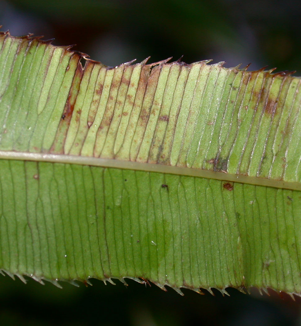 Pteris cretica